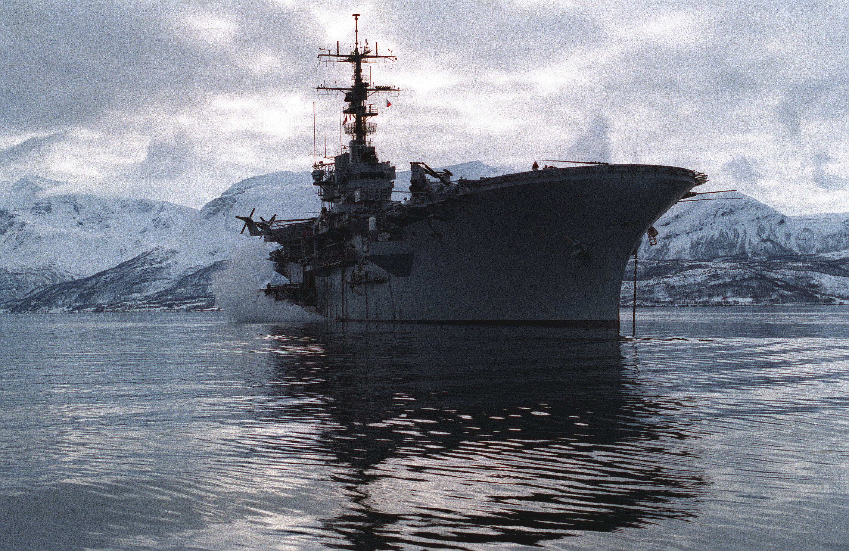 A starboard bow view of the amphibious assault ship USS GUADALCANAL (LPH-7) at anchor in the fjord. The ship is taking part in NATO Exerrcise Teamwork '92.